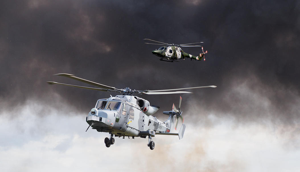 Lynx AH7 with Wildcat AH1